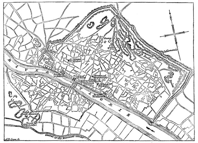 Ground Plan of the Enceinte of Baghdad. Reduced from Survey made by Commander F. Jones and Mr W. Collingwood of the Indian Navy, 1853-54. Published in Encyclopedia Britannica, 10th Ed., 1902.